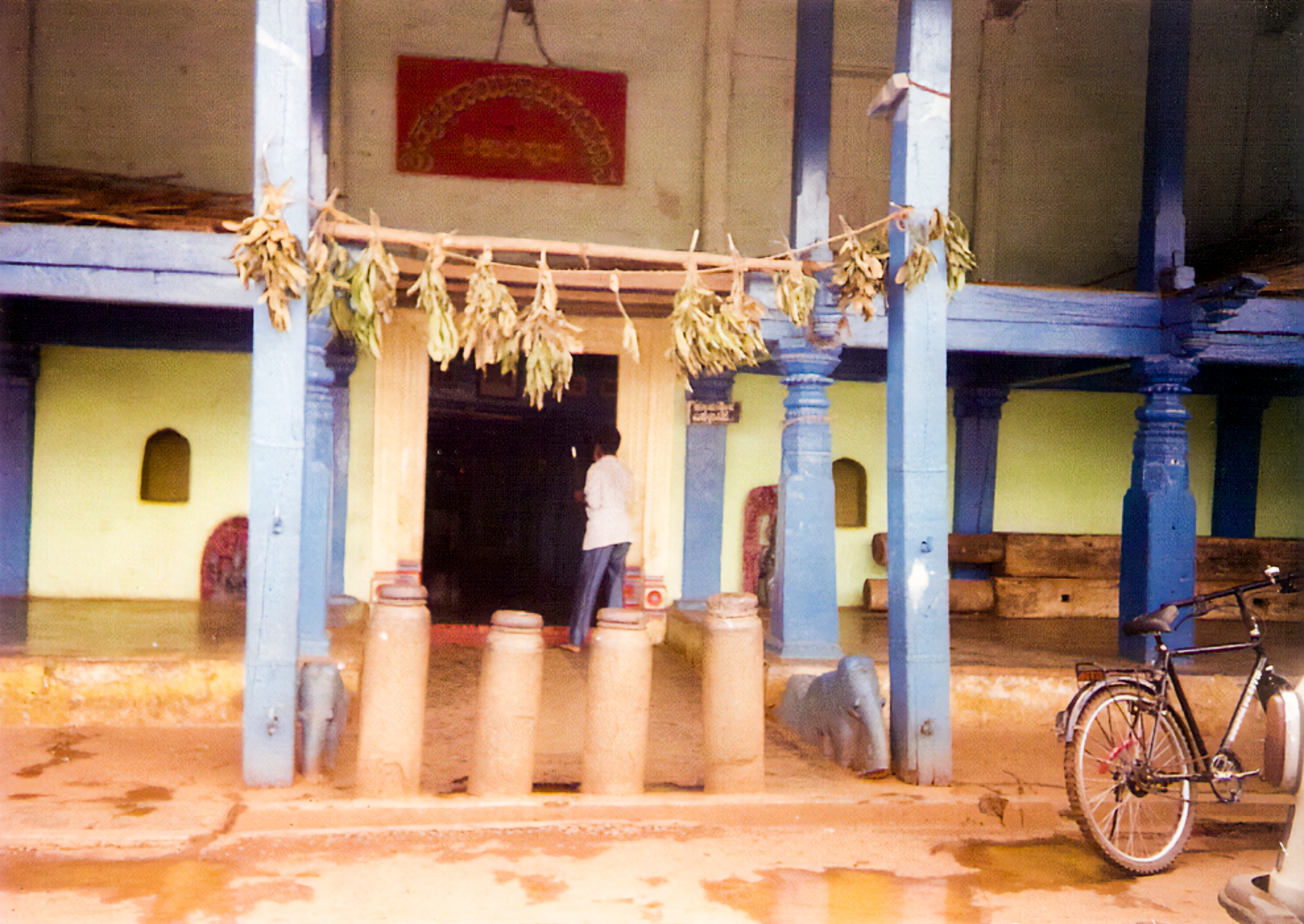 Picture of Huccharaya Swamy Temple, Shikaripur, Shimoga District, Karnataka